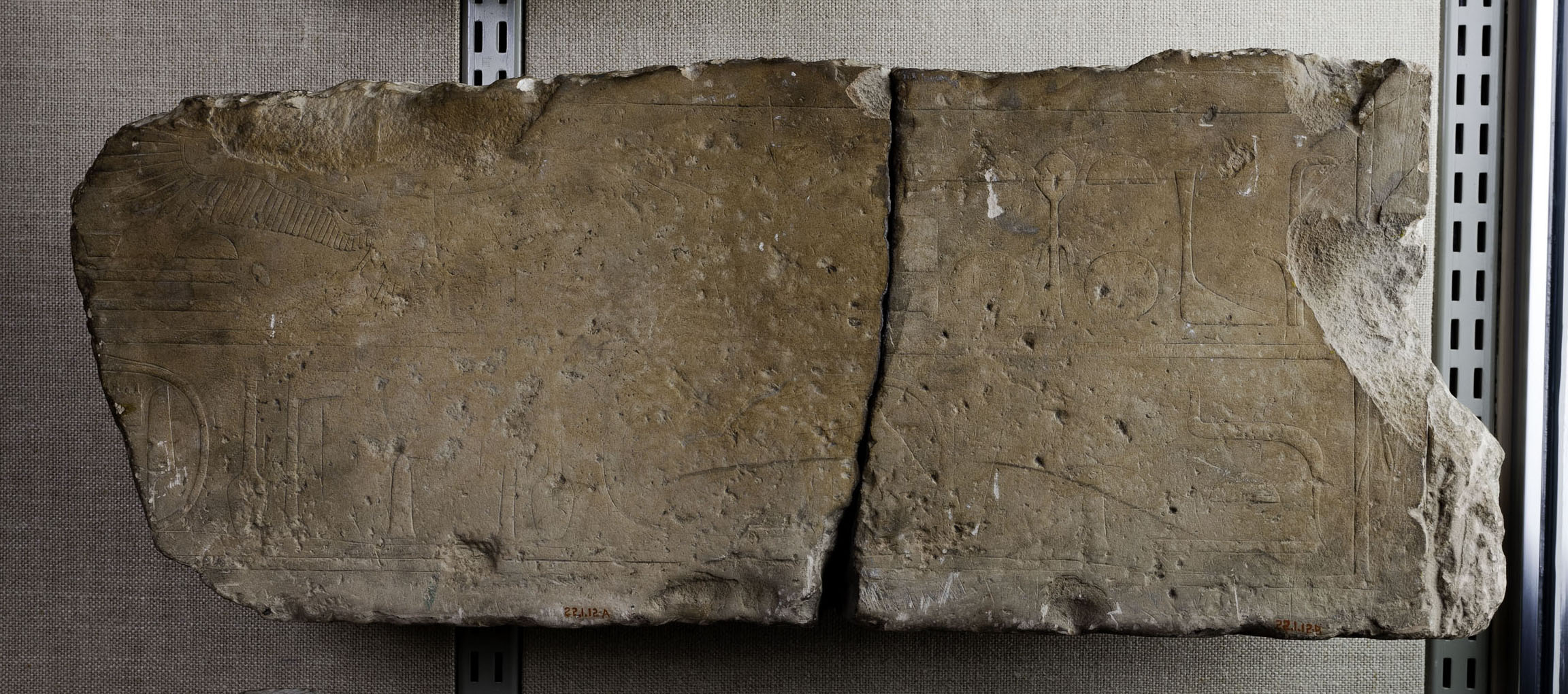 Door lintel, temple relief, Amenemhat IV